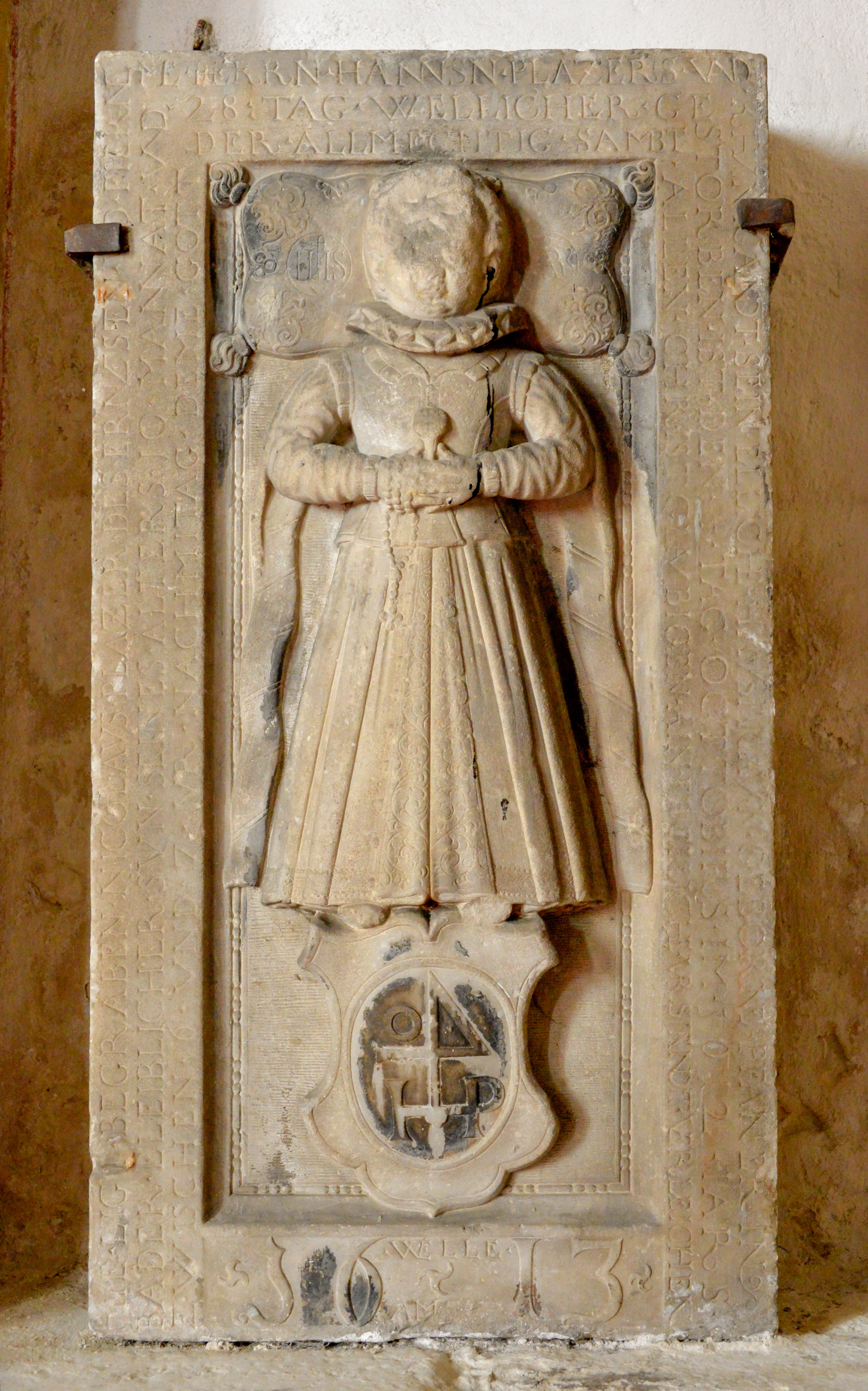 Epitaph for Nicolaus Platzer inside of the parish church Holy Trinity in the city of St. Veit an der Glan, Carinthia, Austria, EU